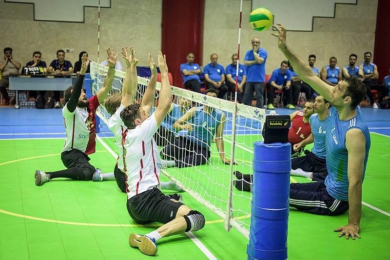 Friendly Match between Iran vs Germany, 2016 Tehran